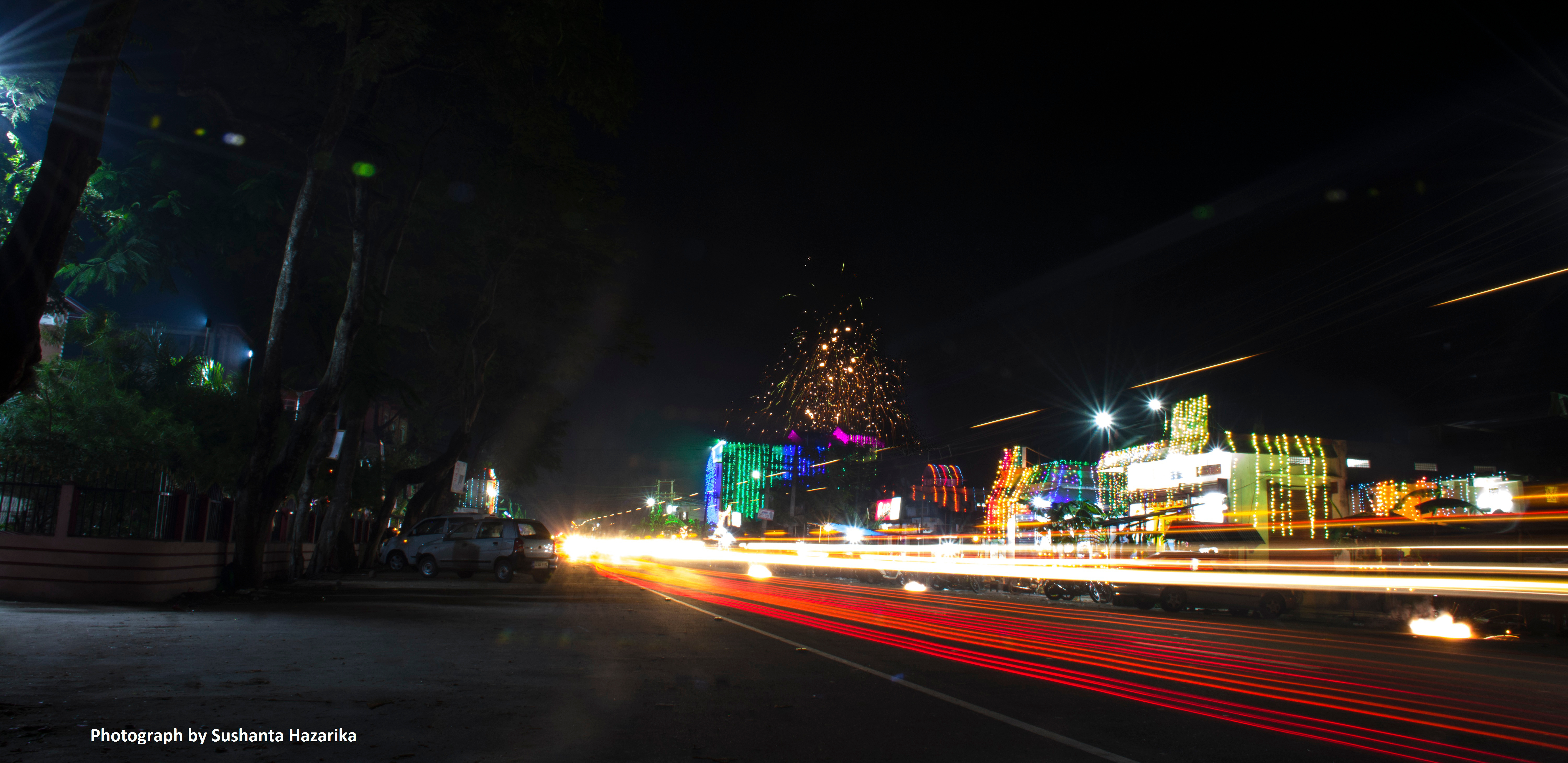 A view of Bokakhat town, by NH-37, in the festive night of Diwali 2016